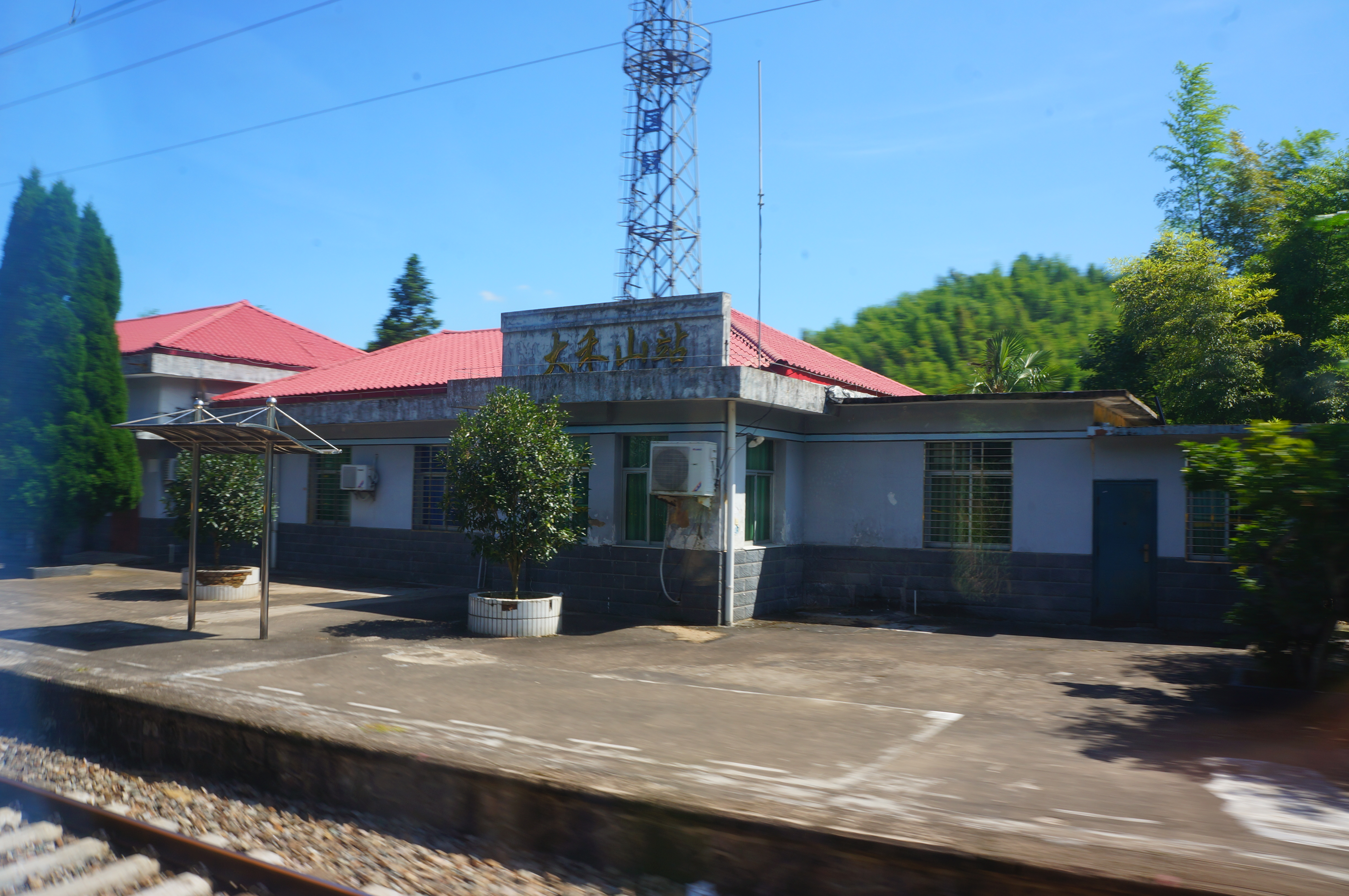 201806 Station Building of Daheshan Station